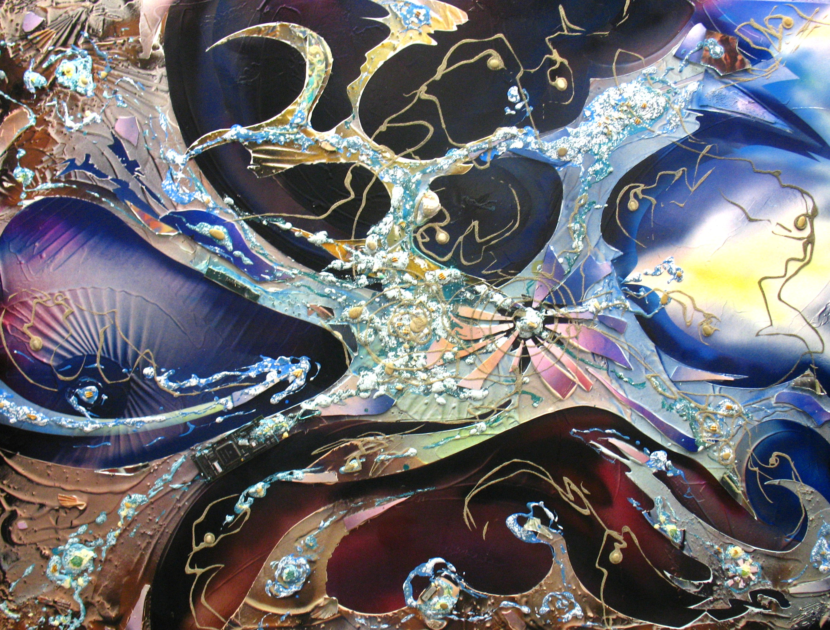 "Carnevale di memorie" (2007) - Hall of the county of Auronzo di Cadore, Belluno, Italy